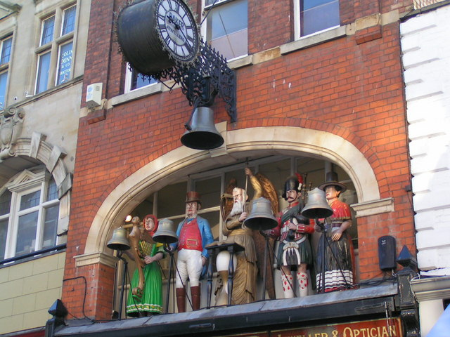 Mechanical Bell ringers on East Gate street